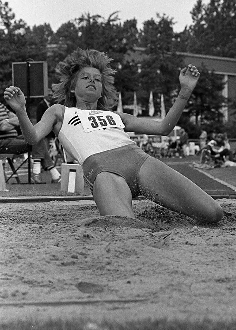 Yvonne van Dorp jumping to victory at the 1984 Dutch Junior Championships in Athletics.